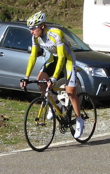 Pavel Brutt, 2008 Vuelta a España, 8th stage, Port de la Bonaigua, Spain.